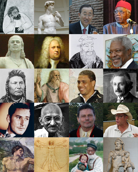 Collage of 20 men